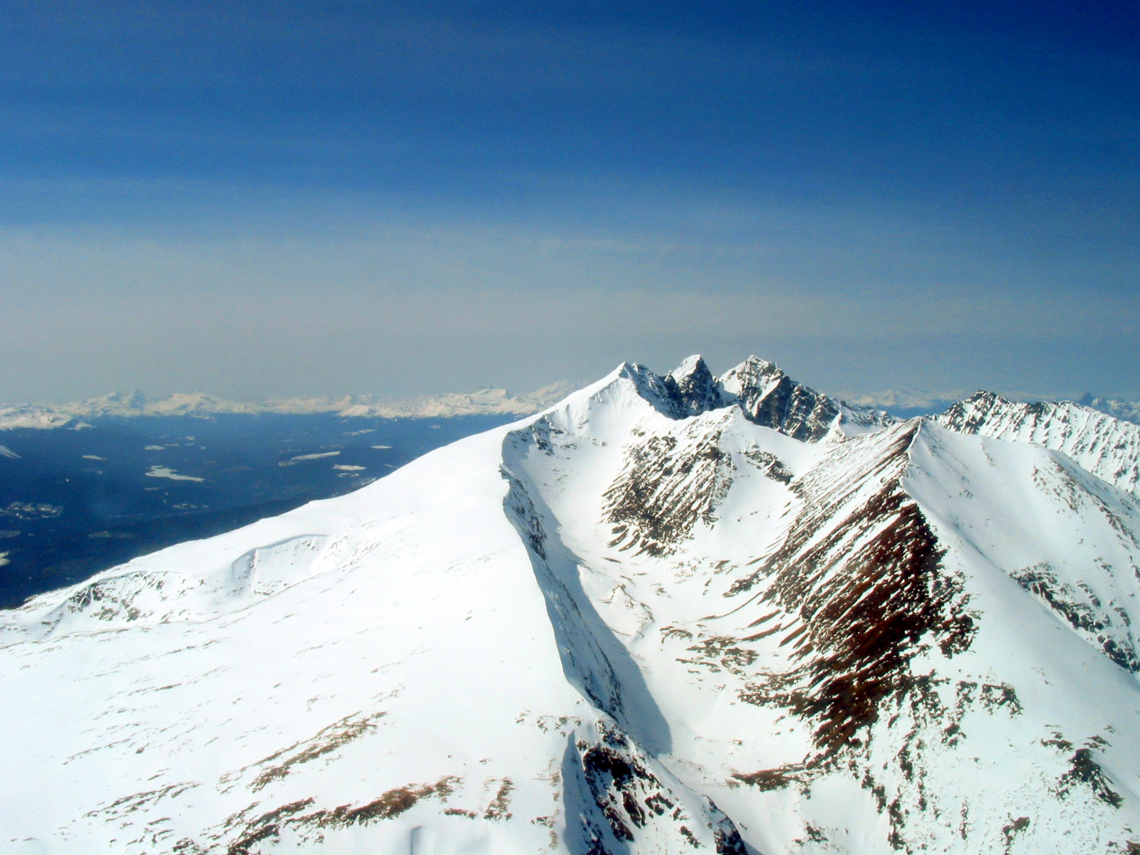 Taken from 8000' asl, just above Smithers